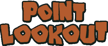 Simple Logo